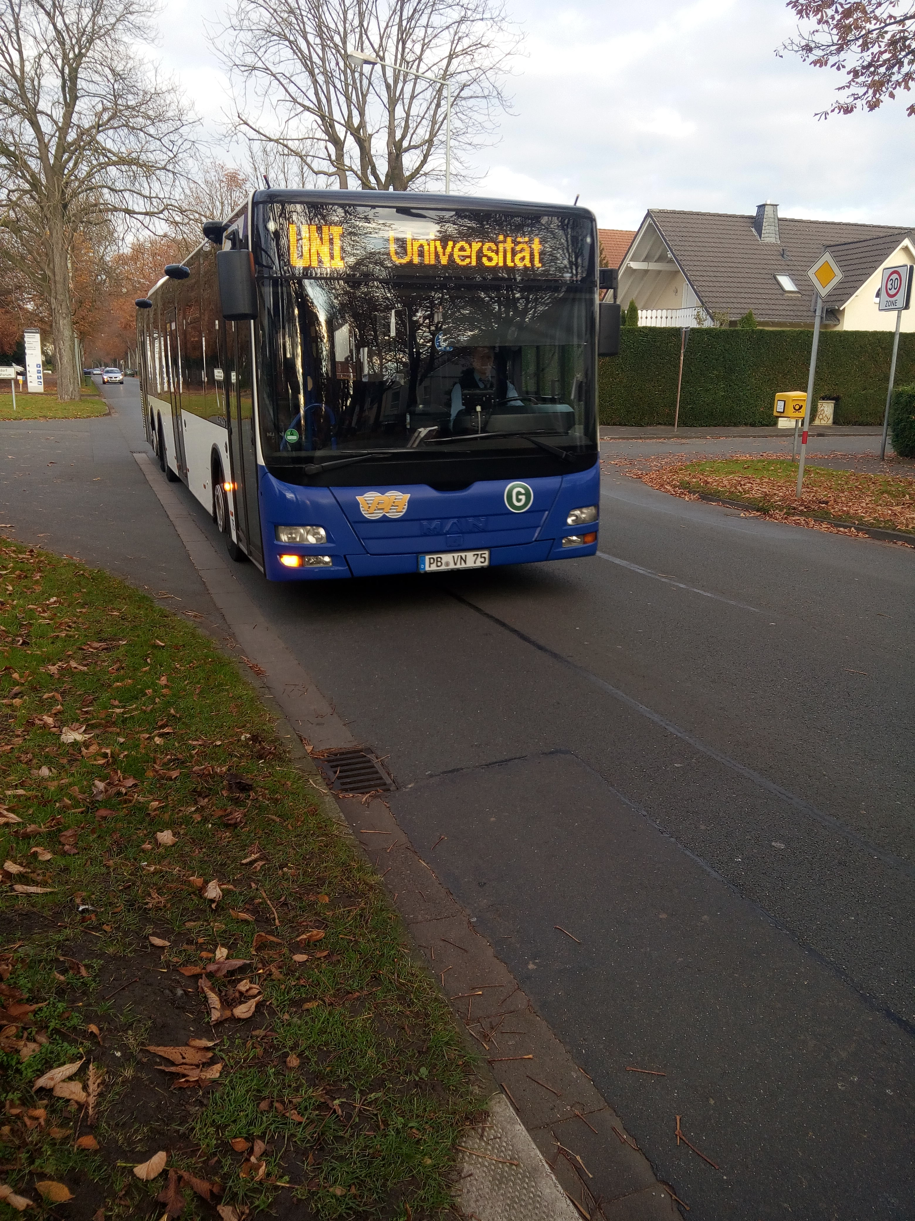 Uni-Line bus connecting the two campuses